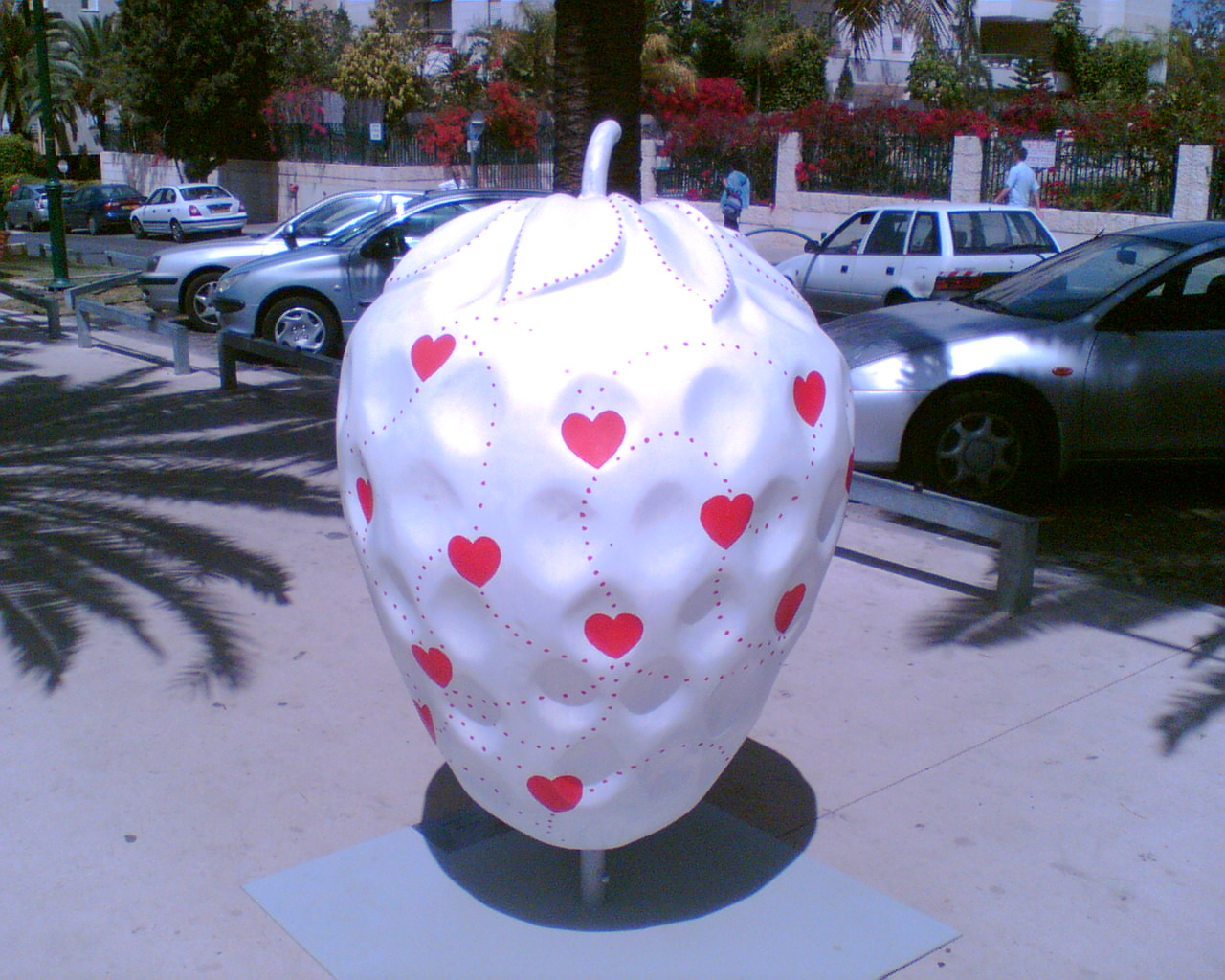 "HO! L'AMOUR!", sculpture by Tamar Caravan, "Strawberries at Ramat Hasharon" exhibition